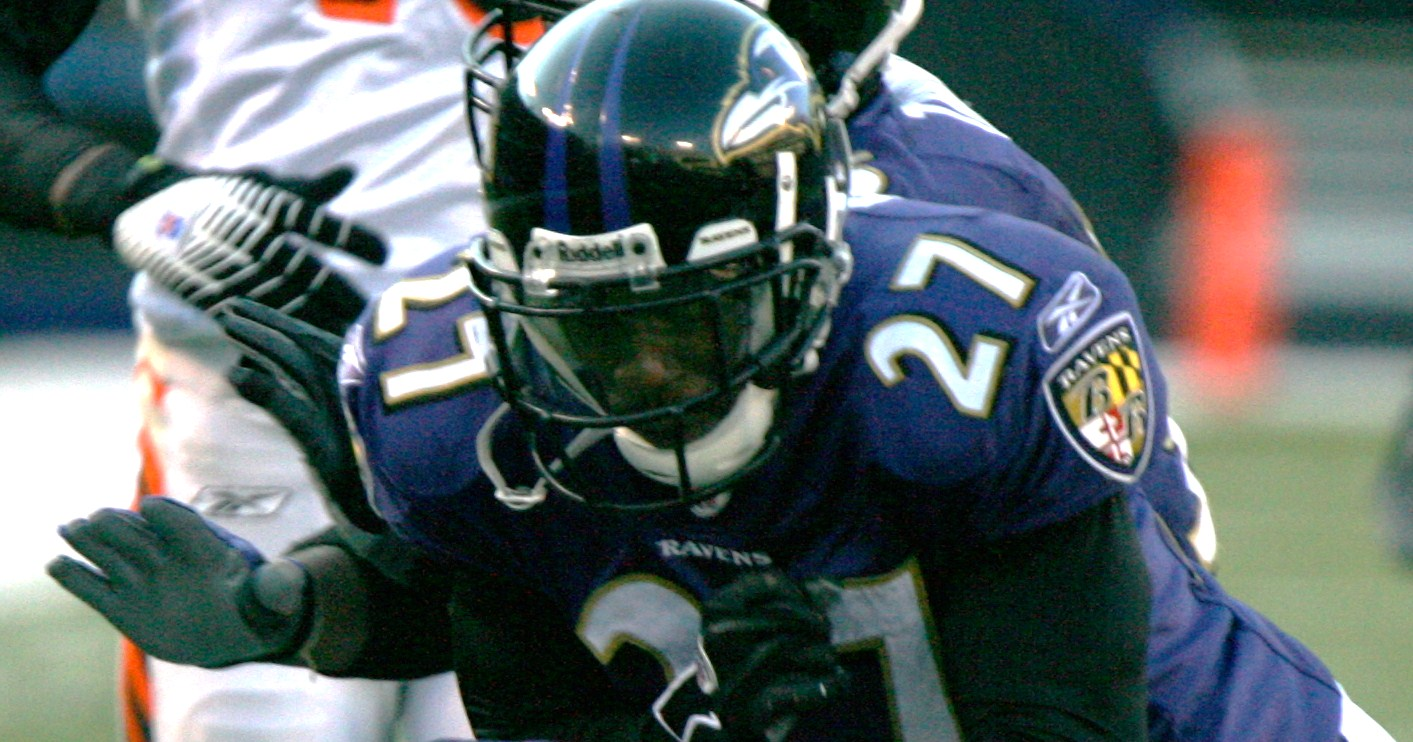 Ronnie Prude with the Baltimore Ravens